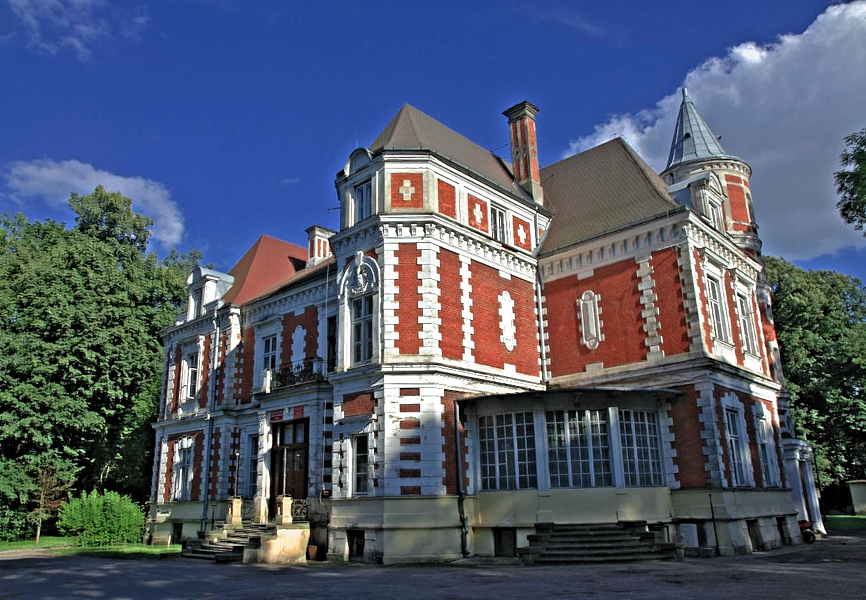 Kronenbergs' Palace in Brzezie. Built in 1873-79.